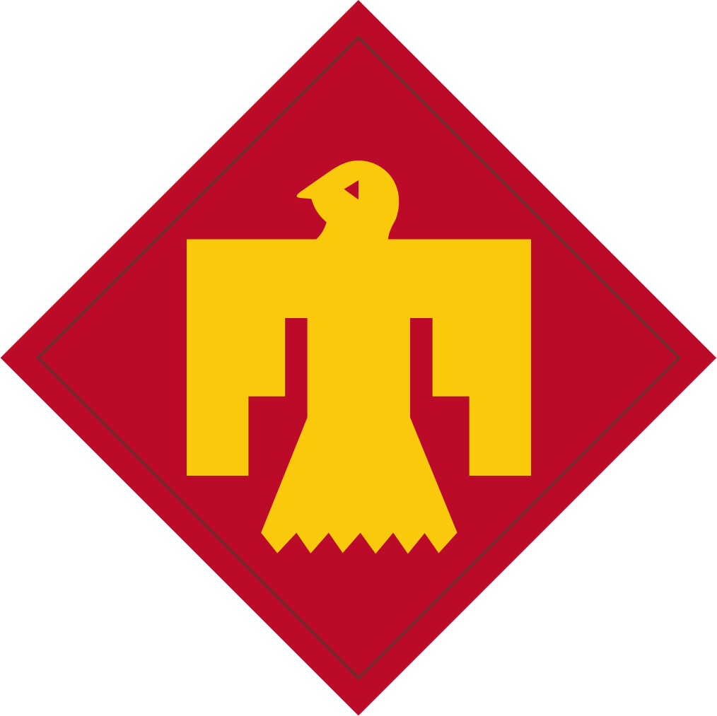 The Shoulder Sleeve Insignia of the 45th Infantry Brigade Combat Team (formerly 45th Infantry Division) of the United States Army.